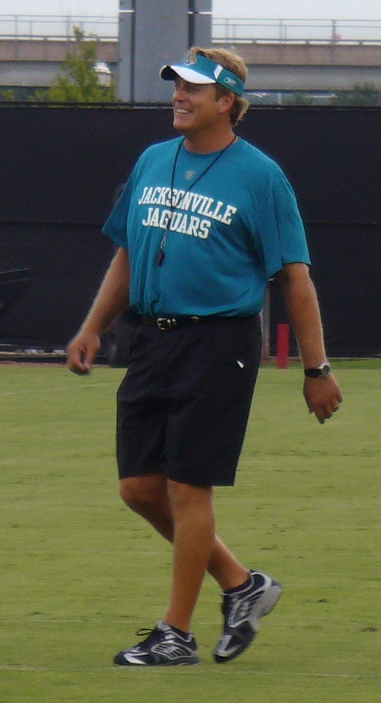 Jack Del Rio, Jacksonville Jaguars training camp. July 27, 2008